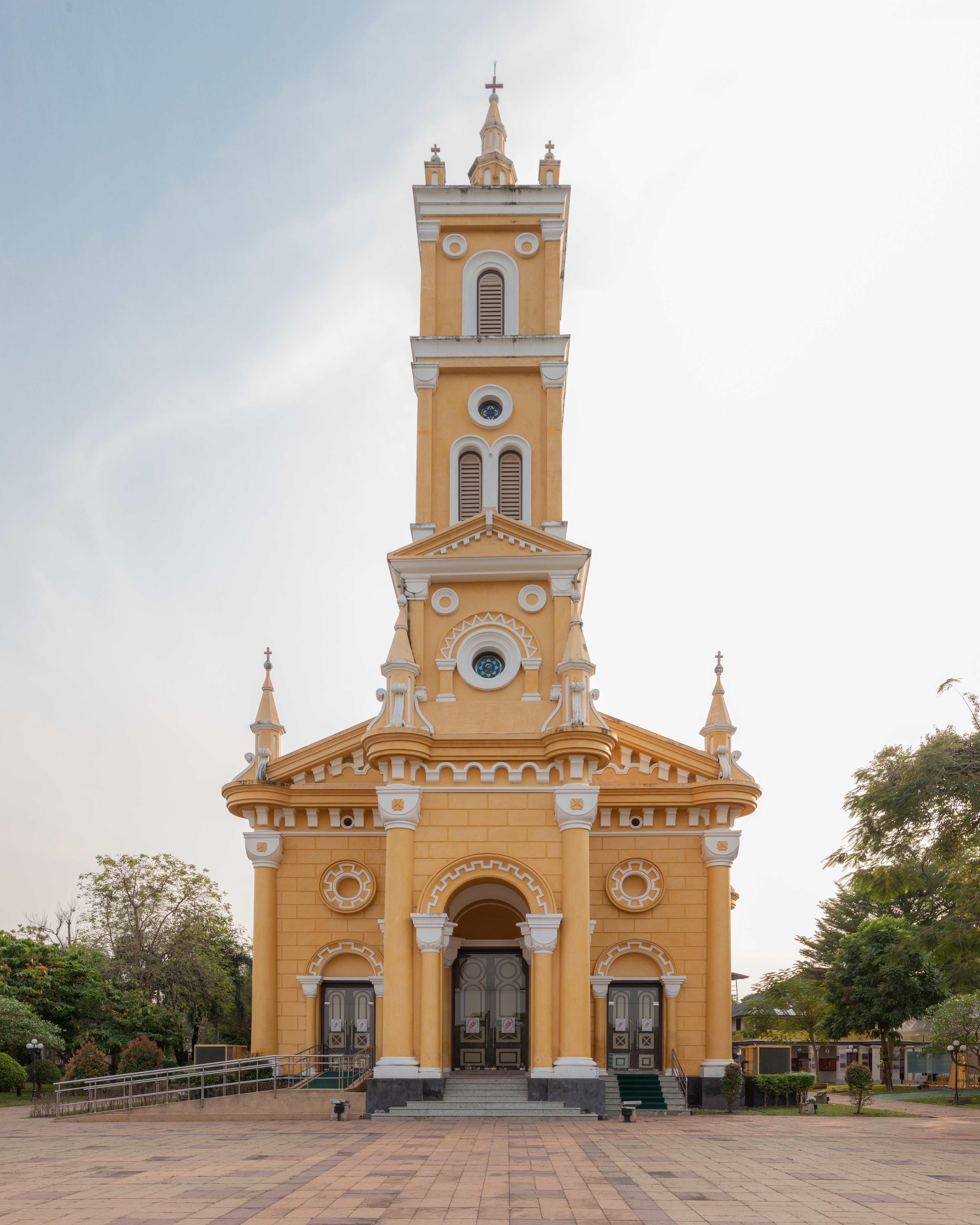 Saint Joseph Catholic Church, Ayutthaya, Samphao Lom Subdistrict, Phra Nakhon Si Ayutthaya District, Phra Nakhon Si Ayutthaya Province, Thailand.